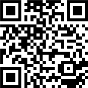 Qr code for the greek wikipedia main page